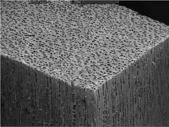 Scanning Electron Microscopy of the pore distribution in beech